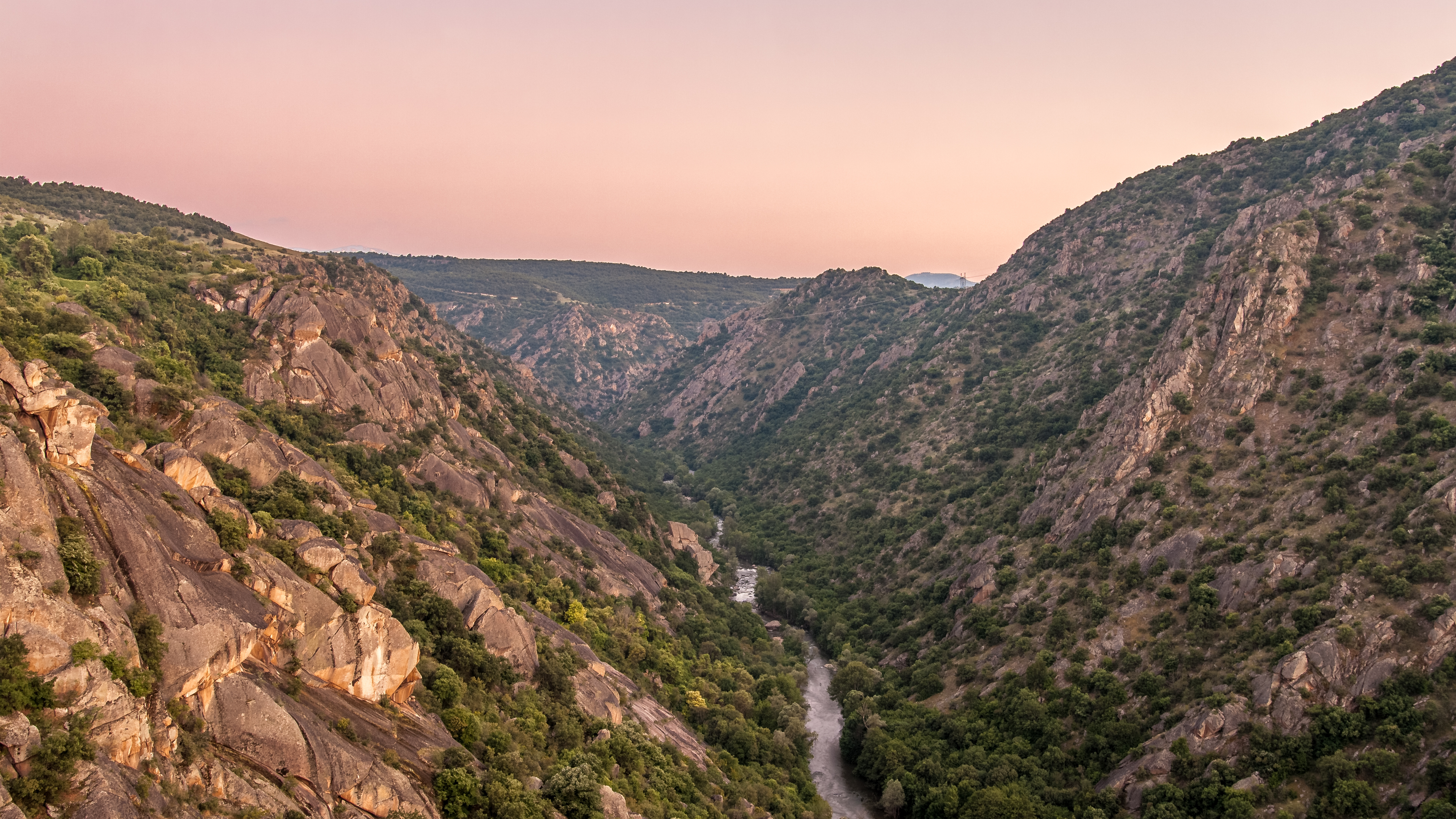 View of the Skočivir Canyon in Mariovo, Macedonia.